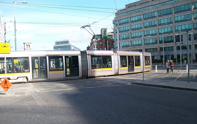 A LUAS tram crosses Amiens Street from the direction of Store Street The tram is making for the LUAS green line terminal in the forecourt of Connolly Station.